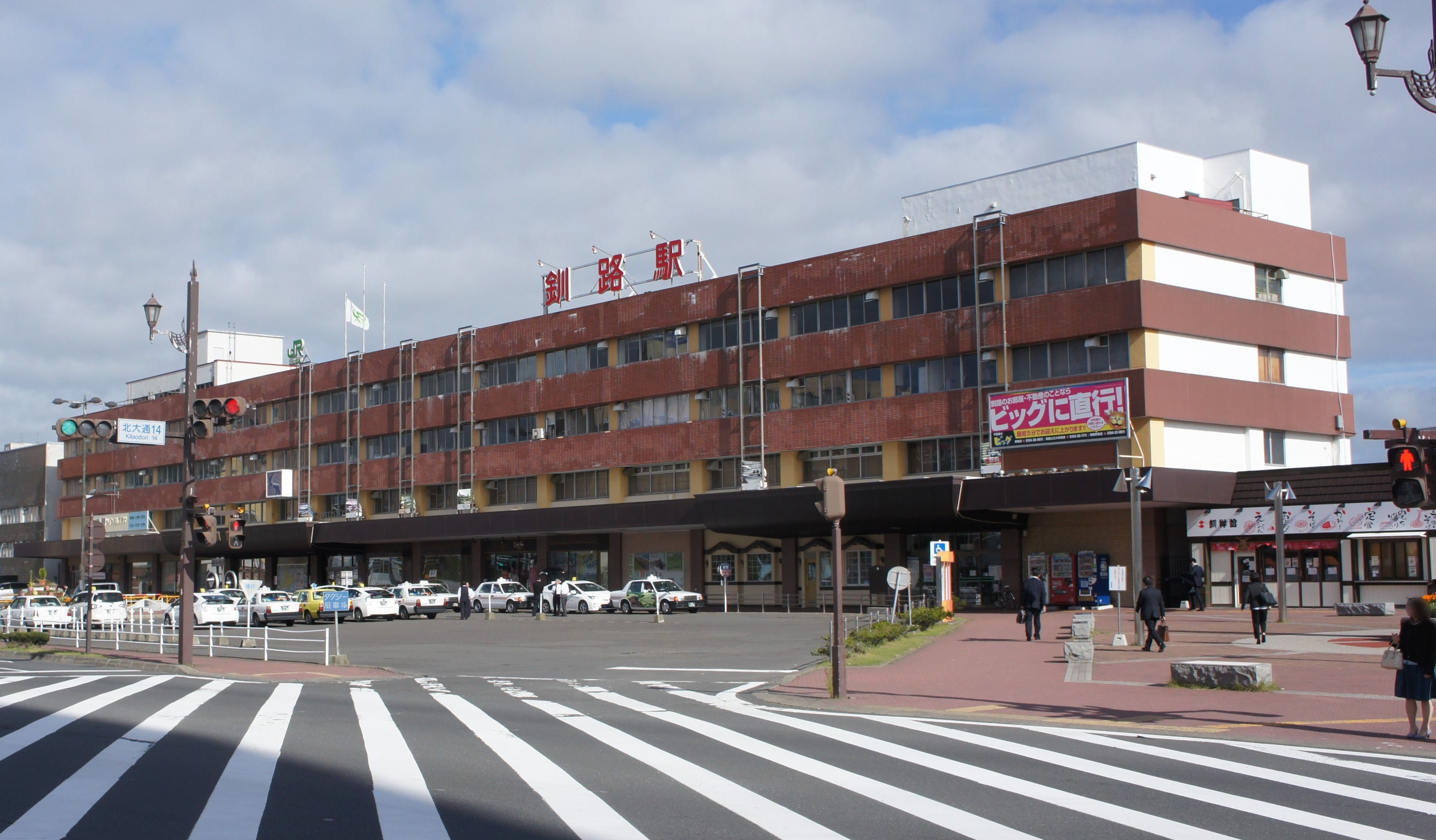 Station building of JR Nemuro-Main-Line Kushiro Station